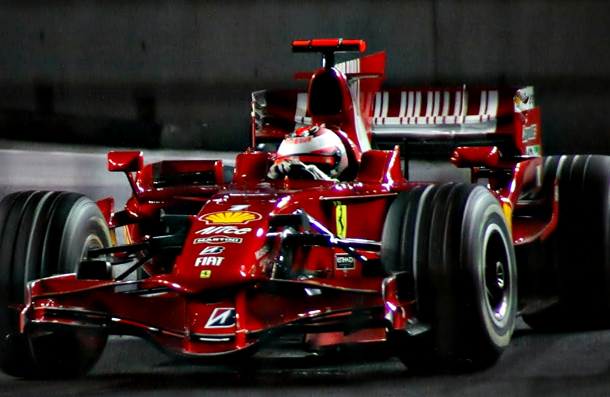 Kimi Raikkonen driving a Ferrari F2008 at the 2008 Singapore Grand Prix.